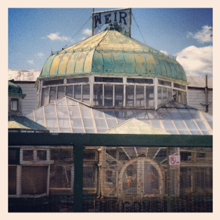 Weir Greenhouse, 750-751-5th Ave. Sunset Park